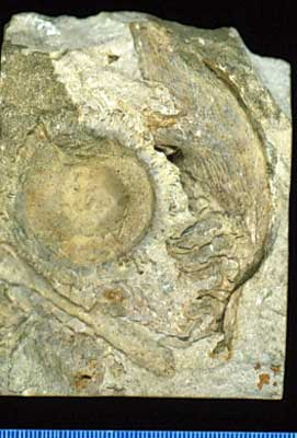 B. R. Speer, photo of an ovulate fructescence of Williamsonia (Bennetitales) from Jurassic rock of Rajmahal Formation, in India Specimen collected in 1964 by W. L. Fry and housed at UCMP.